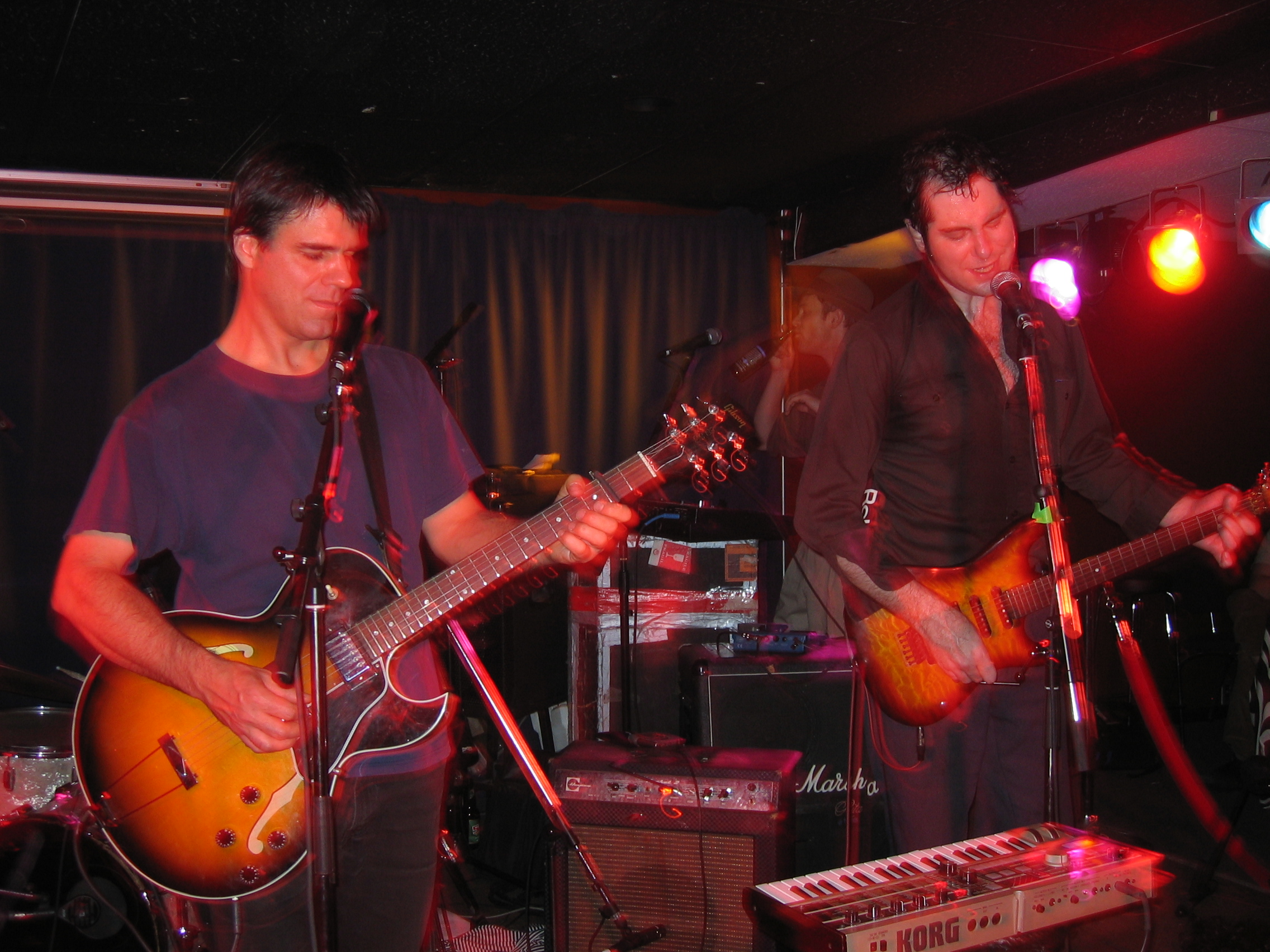 Tim Vesely and Martin Tielli of the Rheostatics, playing at the Starlight, Waterloo, Ontario, Canada